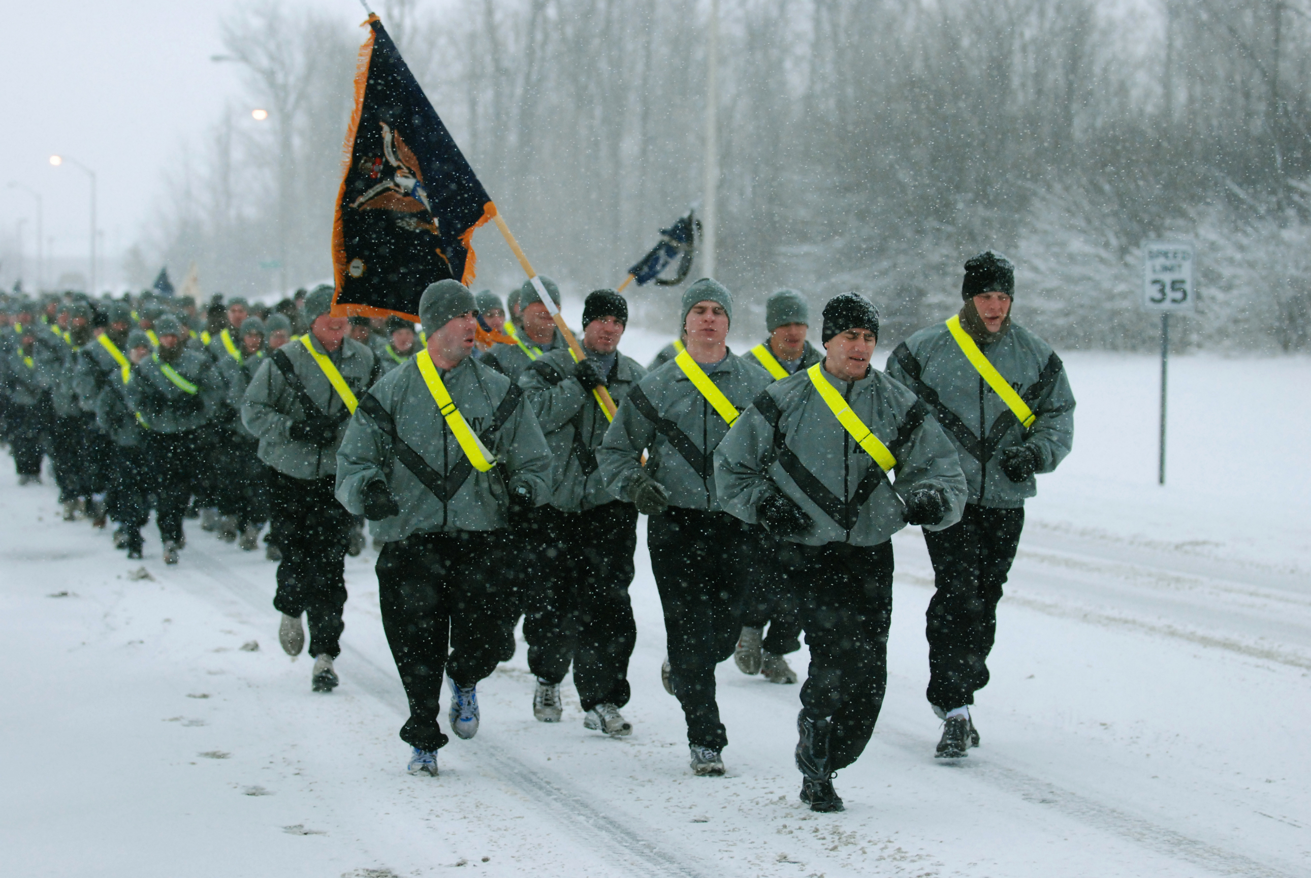 With blowing snow and freezing temperatures, it looks more like Christmas than spring on Fort Drum. The weather also serves as a fitting 10th Mountain Division farewell to Lt. Col. Christopher S. Vanek as he takes his 1st Battalion, 87th Infantry Regiment on one final run on April 8 before changing command. 1st Brigade Combat Team, 10th Mountain Division Public Affairs Photo by Staff Sgt. John Queen Date: 04.08.2009 Location: Fort Drum, US Related photos